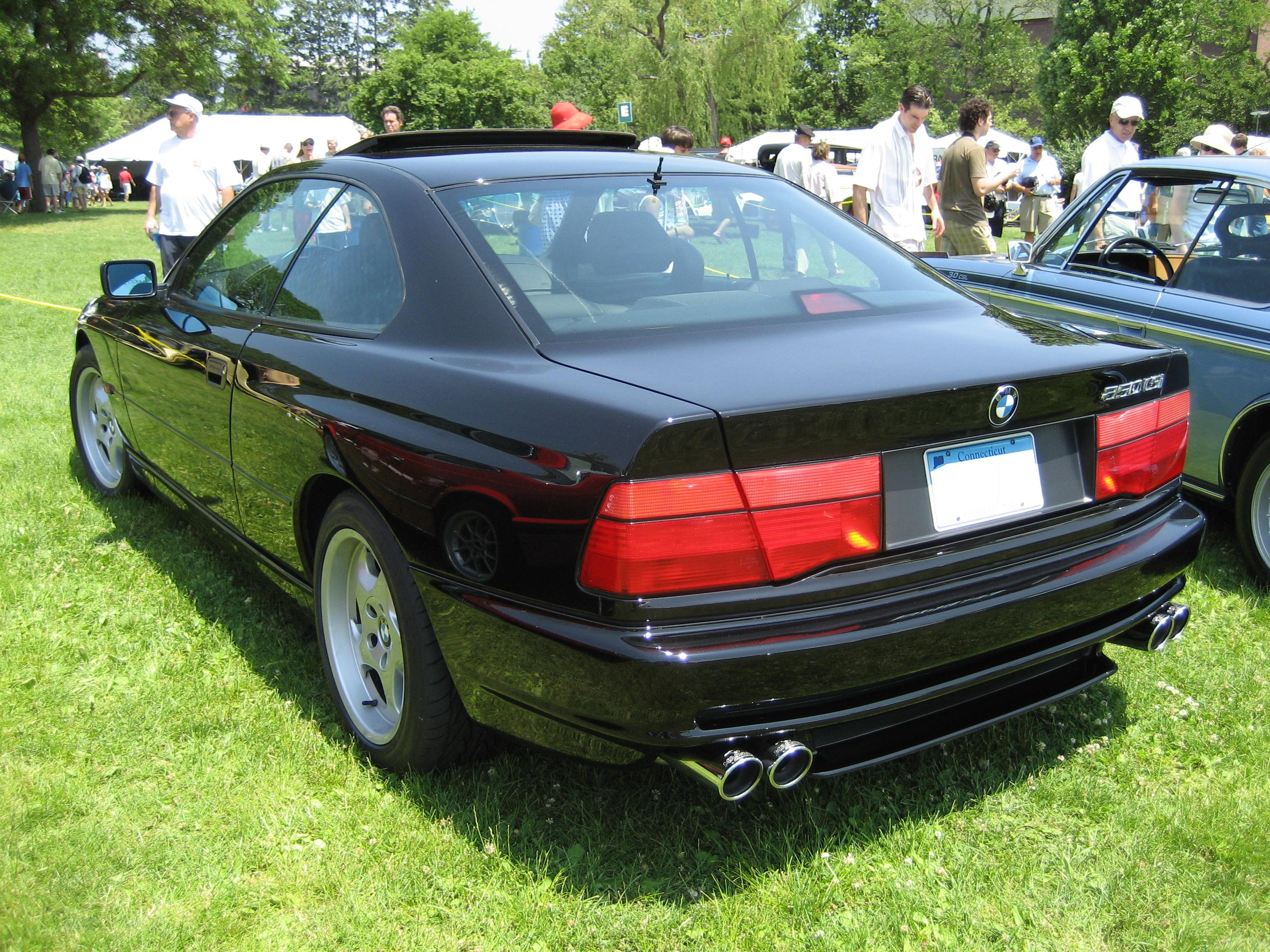 1995 BMW 850 CSi photographed at the 2008 Greenwich Concours d'Elegance in Greenwich, Connecticut.